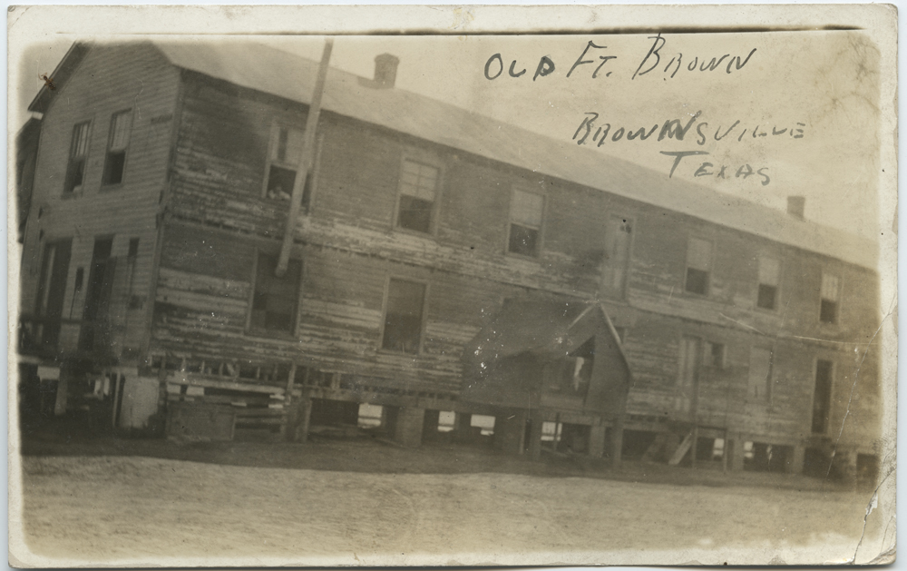 Title: Old Ft. Brown, Brownsville, Texas Creator: Unknown Date: ca. 1911-1917 Part Of: American border troops and the Mexican Revolution Place: Brownsville, Texas Physical Description: 1 photographic print (postcard): gelatin silver File: ag1982_0015_032c_ft_brown.jpg Rights: Please cite DeGolyer Library, Southern Methodist University when using this file. A high-resolution version of this file may be obtained for a fee. For details see the web page. For other information, . For more information and to view the image in high resolution, see: View the Texas: Photographs, Manuscripts, and Imprints Collection